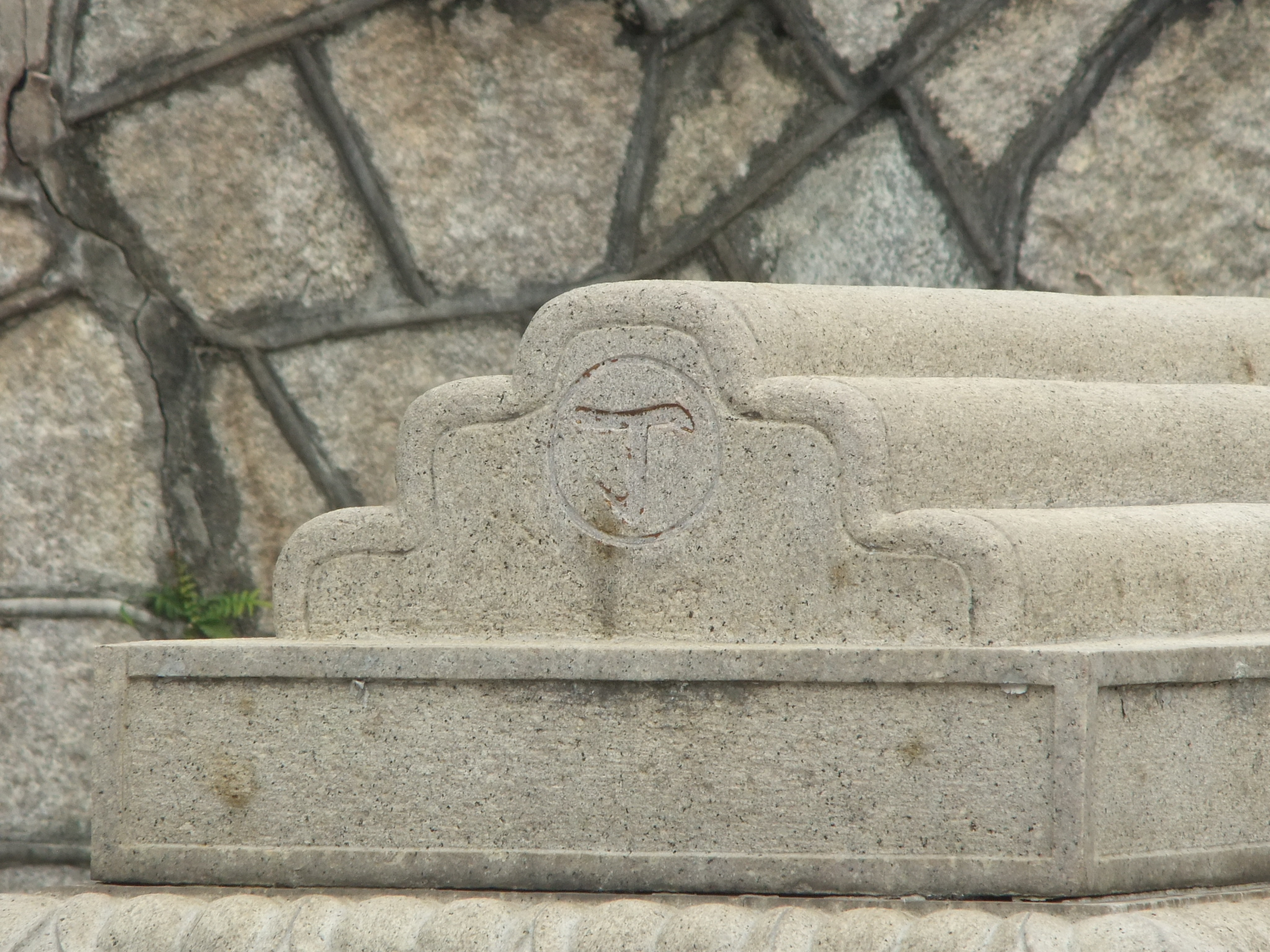 Lingshan Islamic Cemetery (Lingshan Park) in Quanzhou. Graves of the ancestors of Chen, Jiang, and Ding lineages (group 2). The two tombs are surrounded by Fujian's traditional omega-shaped ridge (somewhat modified), but the tombs themselves are Islamic-style sarcophagi, rather than Fujian-style turtle backs.